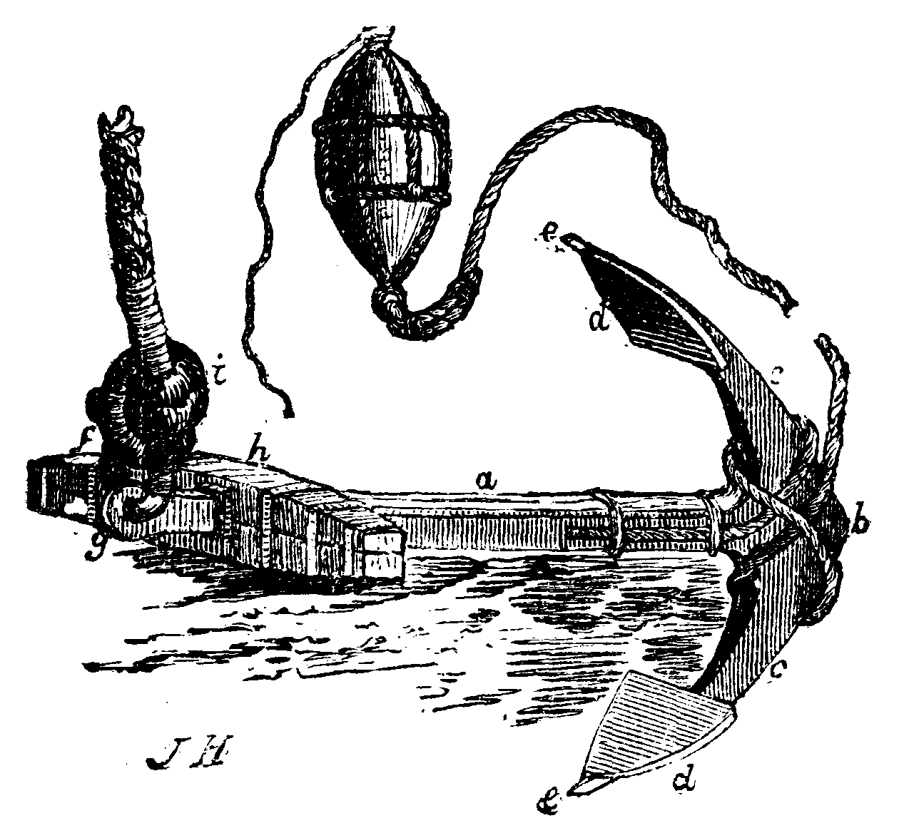 Ships anchor (with anchor buoy).